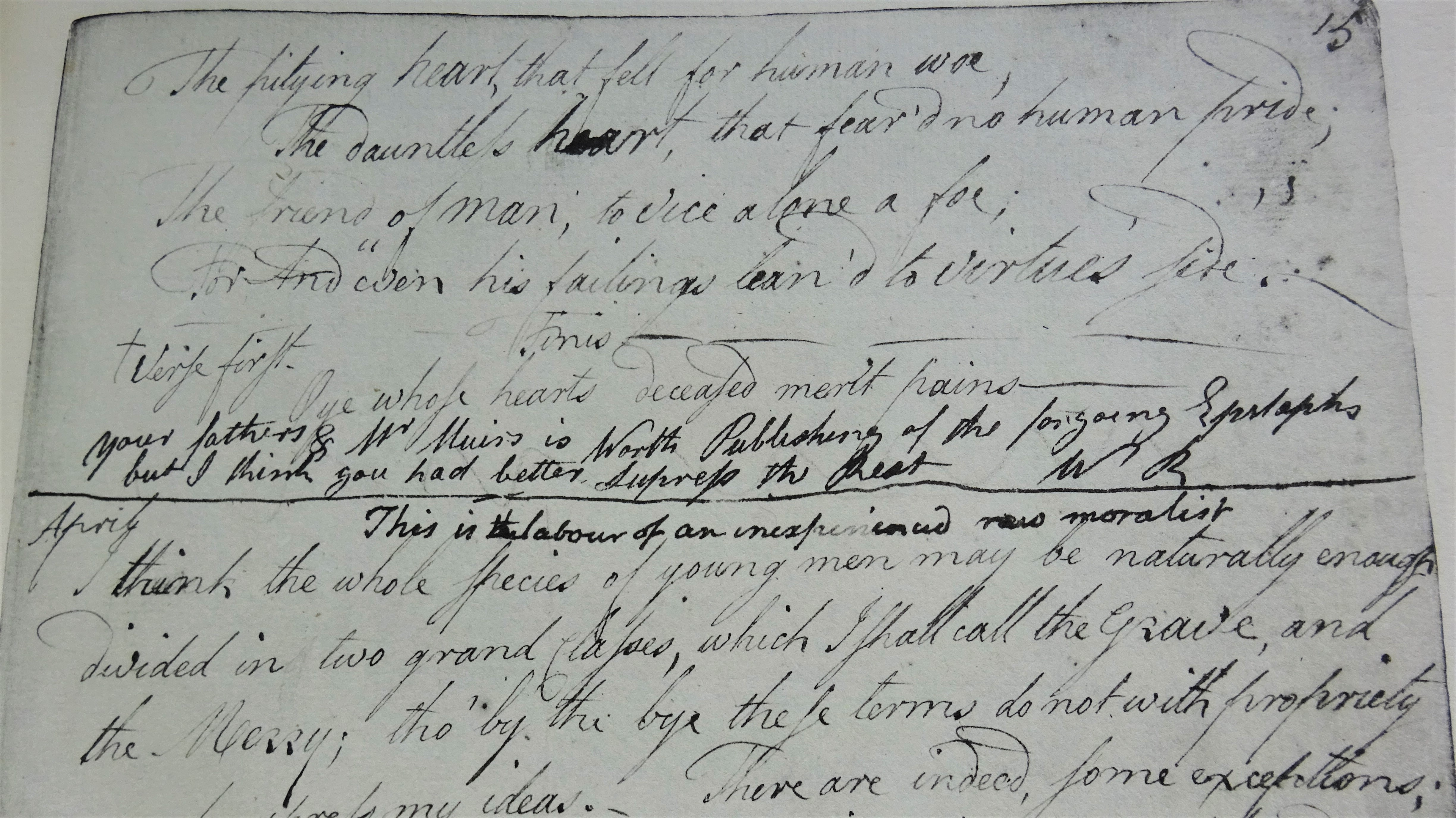 Symes comment on 'W.R.' as a '..inexperienced raw moralist', Robert Burns's Commonplace Book 1783 - 1785. Page 15.